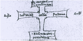 Marginal diagram from De laude Cestrie (~1195)